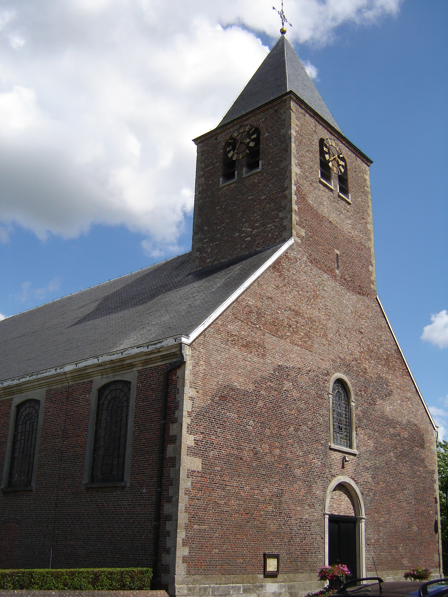 Church of Saint Martin in Mater. Mater, Oudenaarde, East Flanders, Belgium